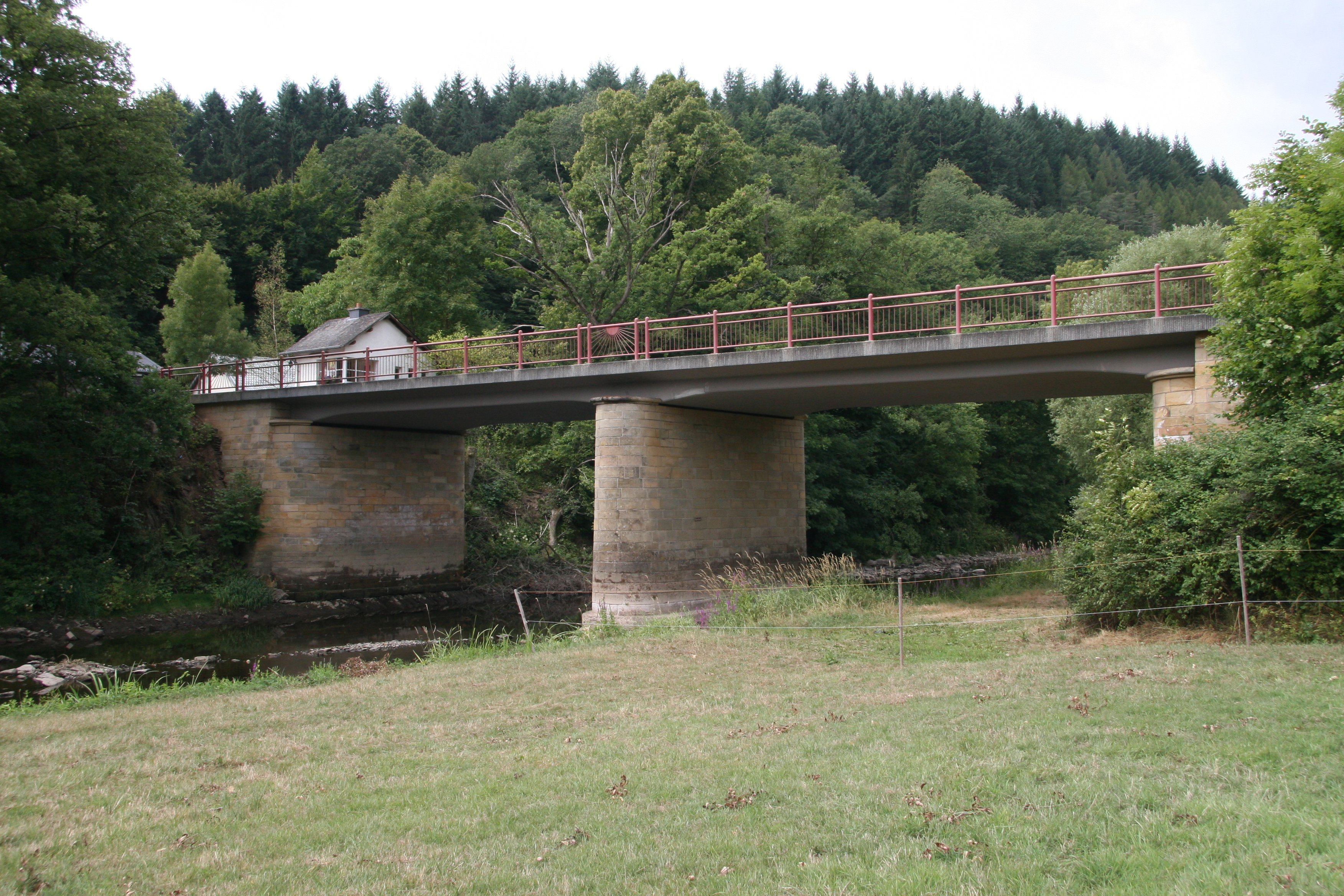 View from Germany on the bridge between Bettel (Luxembourg) and Roth-an-der-Our (Germany).